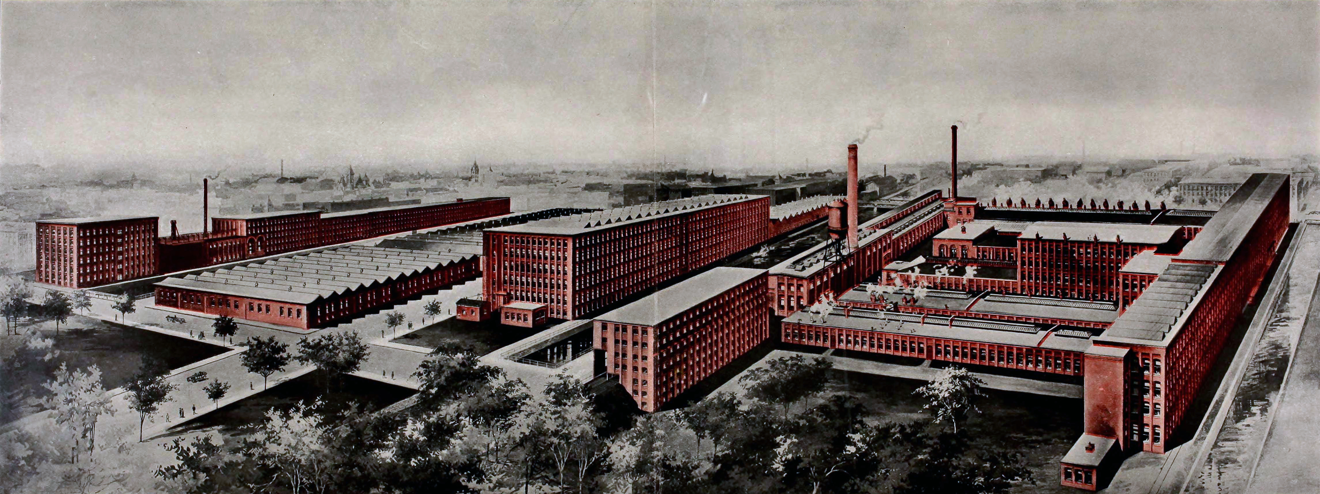 The mill buildings and offices of the Farr Alpaca Company as they appeared in 1912, originally captioned "The Farr Alpaca Company, 1874–1912; Holyoke's Largest Textile Industry Employing Over Three Thousand People"; at one time the company was the largest alpaca woolen mills in the world.